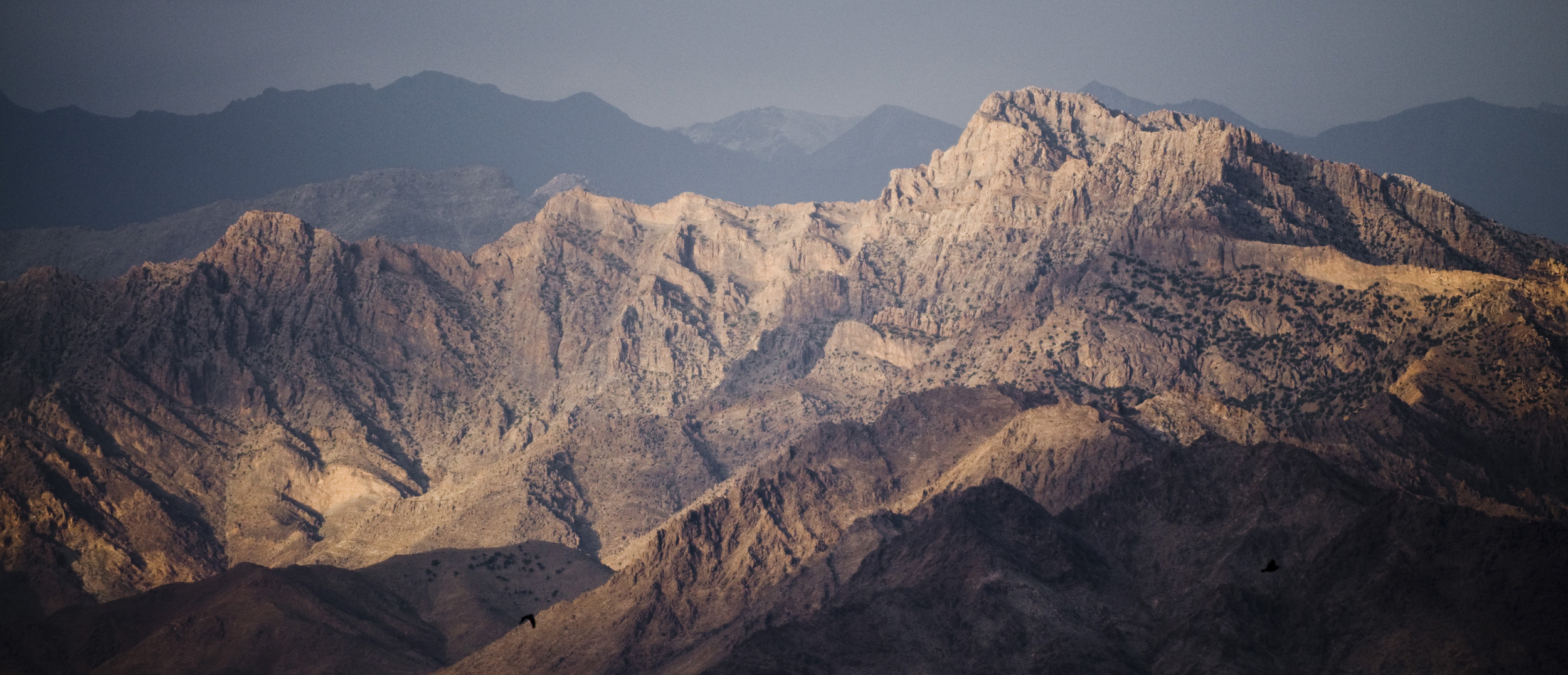 BAGRAM AIR FIELD, Afghanistan -- Late afternoon sun paints the mountains surrounding Bagram Air Field amber on July 26, 2008. The clear air and cloudy sky gave Bagram residents a rare, majestic view of the surrounding range. (U.S. Air Force photo by Staff Sgt. Samuel Morse)